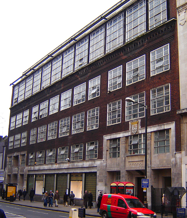 St Martin's (and Central) Art School, Charing Cross Road, London. 14 January 2006. Photographer: Fin Fahey.